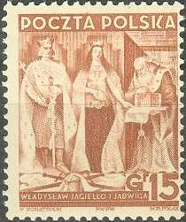 1938 Polish postage stamp (Fi. 312) - 20th anniversary of regained independence of Poland, King Wladislaus Jagiełło and Queen Jadwiga